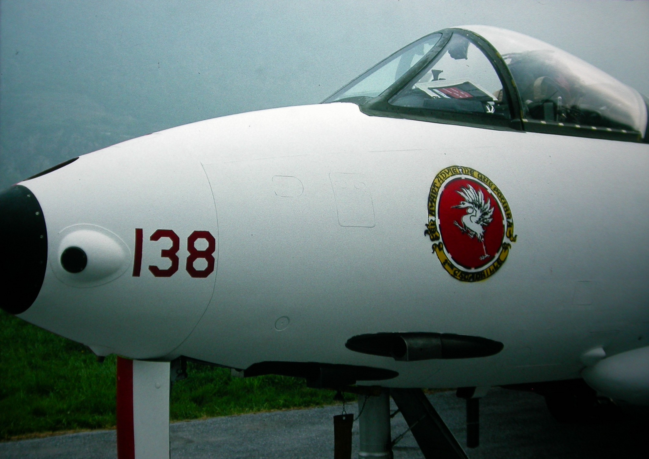 Swiss Air Force 2 Squadron Emblem